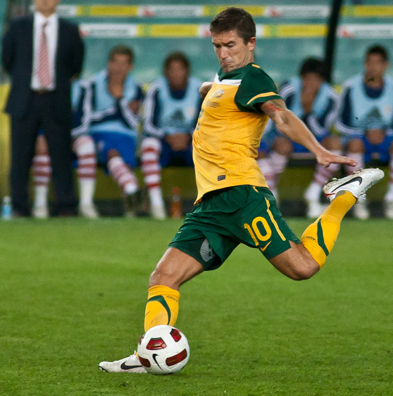 Harry Kewell representing the Australian national football team against Paraguay at the Sydney Football Stadium.